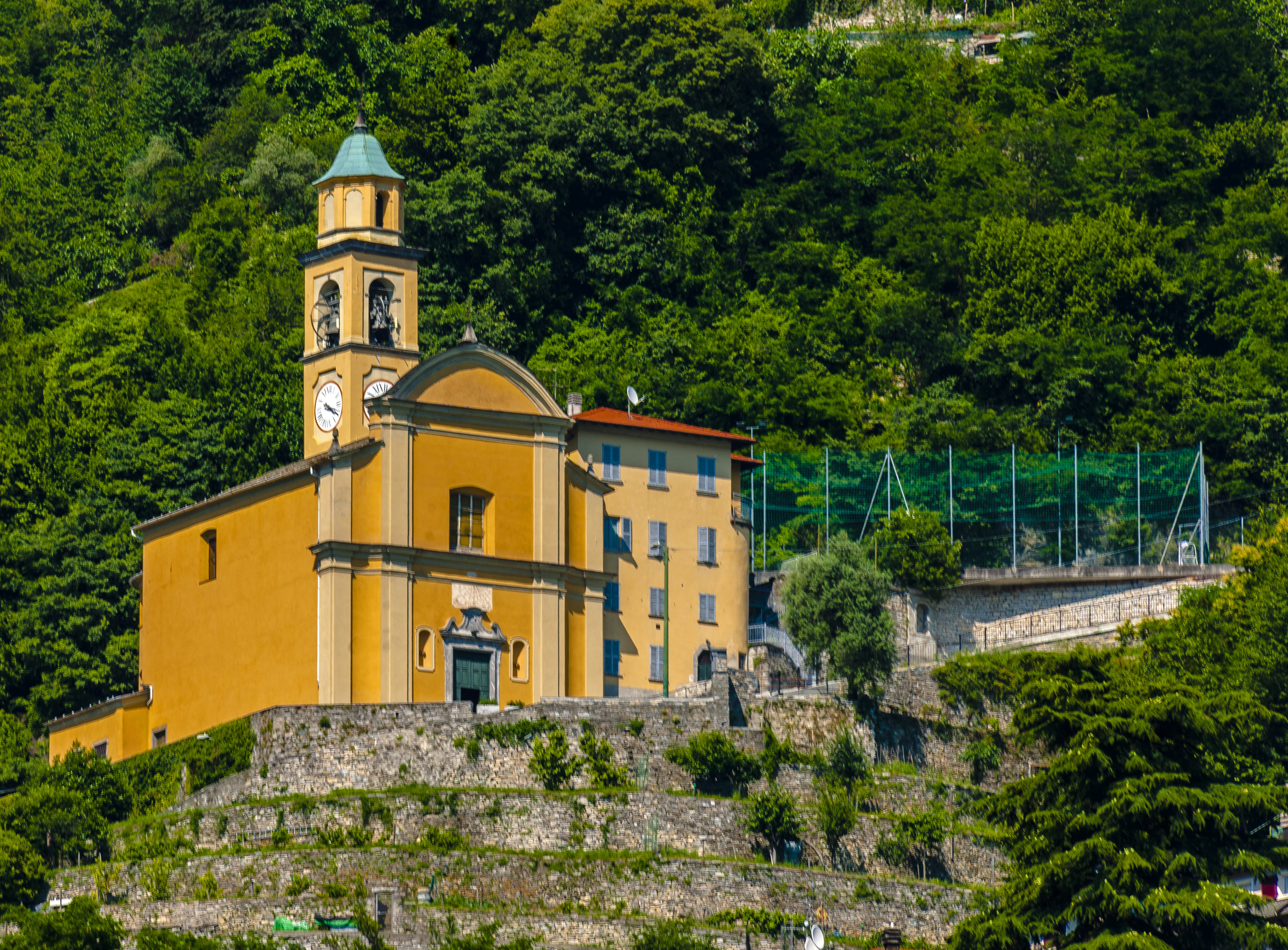 Parish church of Pognana Lario seen from the ferry going up Lake Como